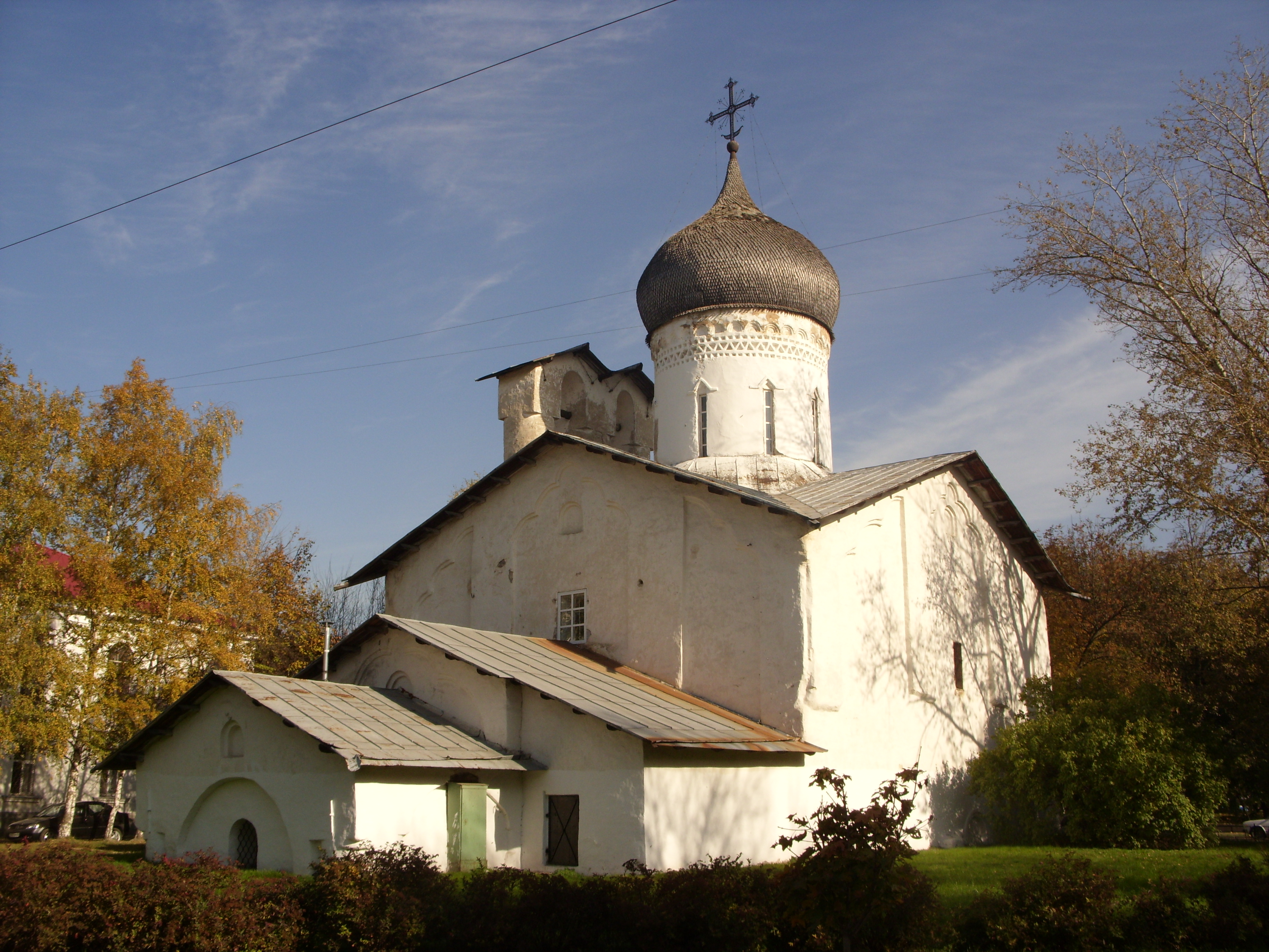 Nikoly so Usohi. Oktjabr 2010